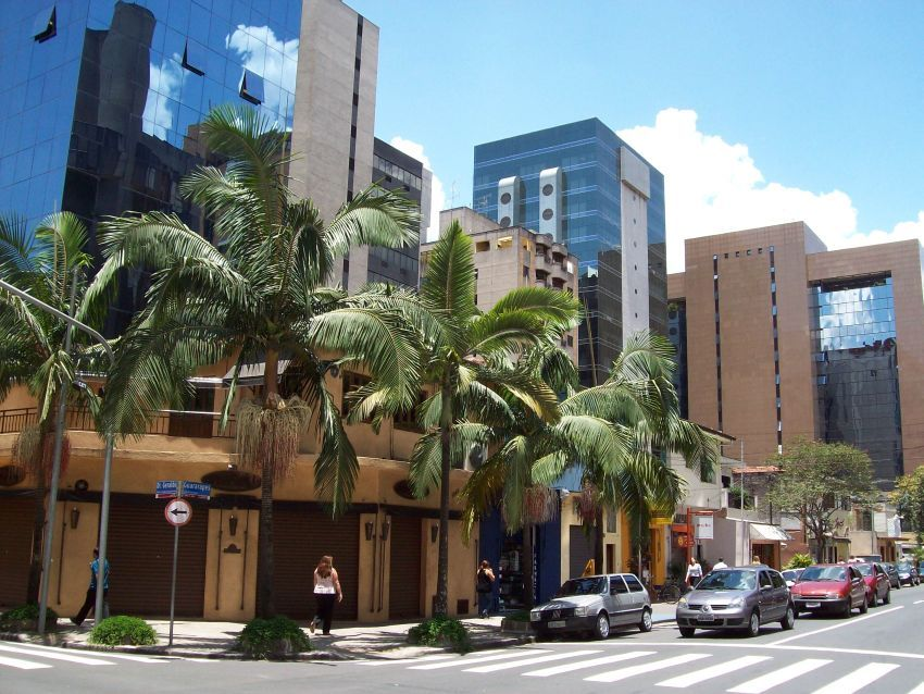 Street of Brooklin in São Paulo.